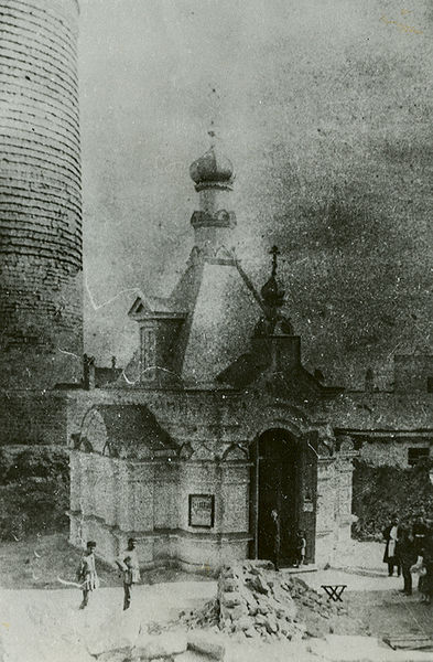 St. Bartholomew ortodox church in Baku, XIX century